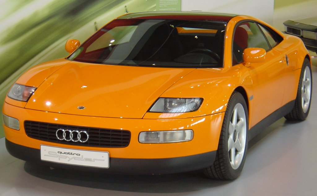 Audi quattro spyder. Prototype build in 1991.